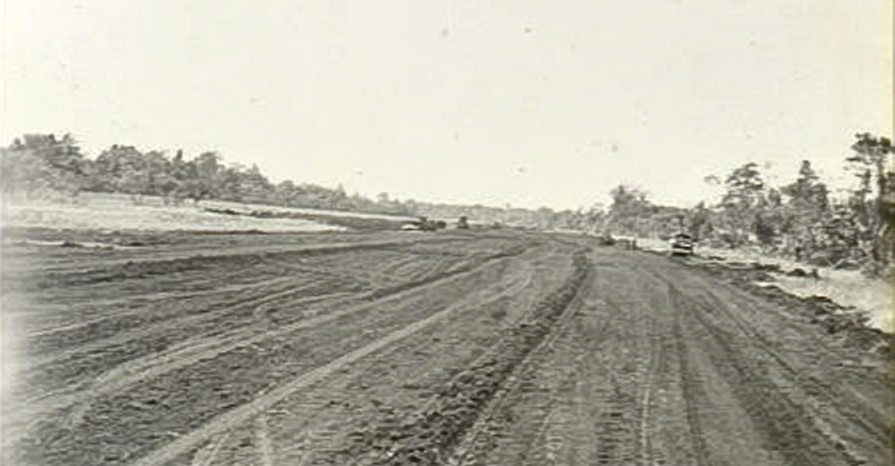 AITAPE, NORTH EAST NEW GUINEA. 1944-02-25. RAAF GROUND FORCES WHO WENT IN WITH AMERICAN STORM TROOPS WERE WORKING ON THE AIRSTRIP AT TADJI A FEW HOURS AFTER ITS CAPTURE. HERE THEY ARE SHOWN LEVELLING AND HARDENING THE STRIP SURFACE ON THE MORNING OF THE SECOND DAY. Given date wrong !! Must be 1944-04-25 !! W.wolny (talk) 21:03, 20 June 2011 (UTC)